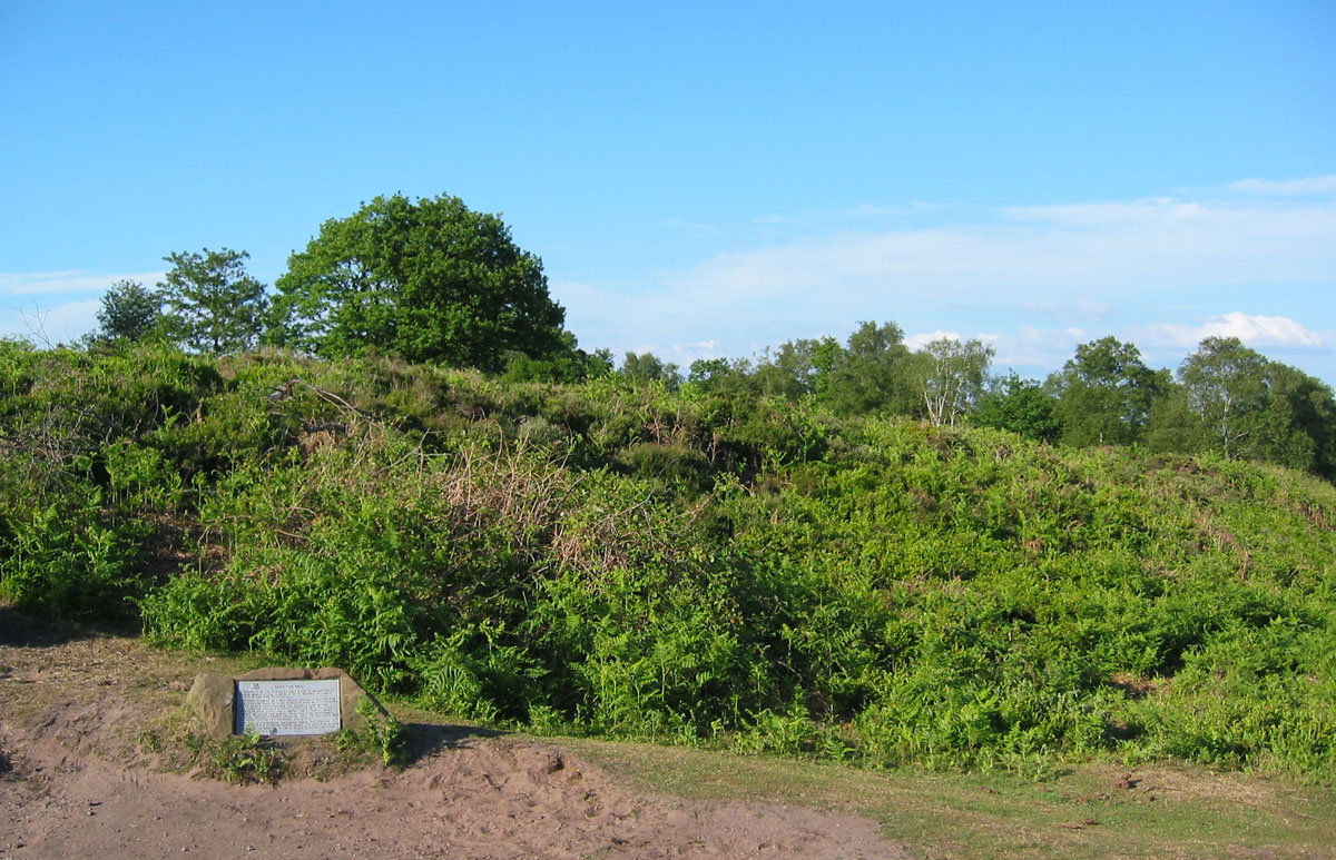 Earth rampart of the iron age hill fort, Maiden Castle, on the summit of Bickerton Hill in Cheshire, in June 2006. The small plaque shown here has since been replaced by a much larger interpretive sign